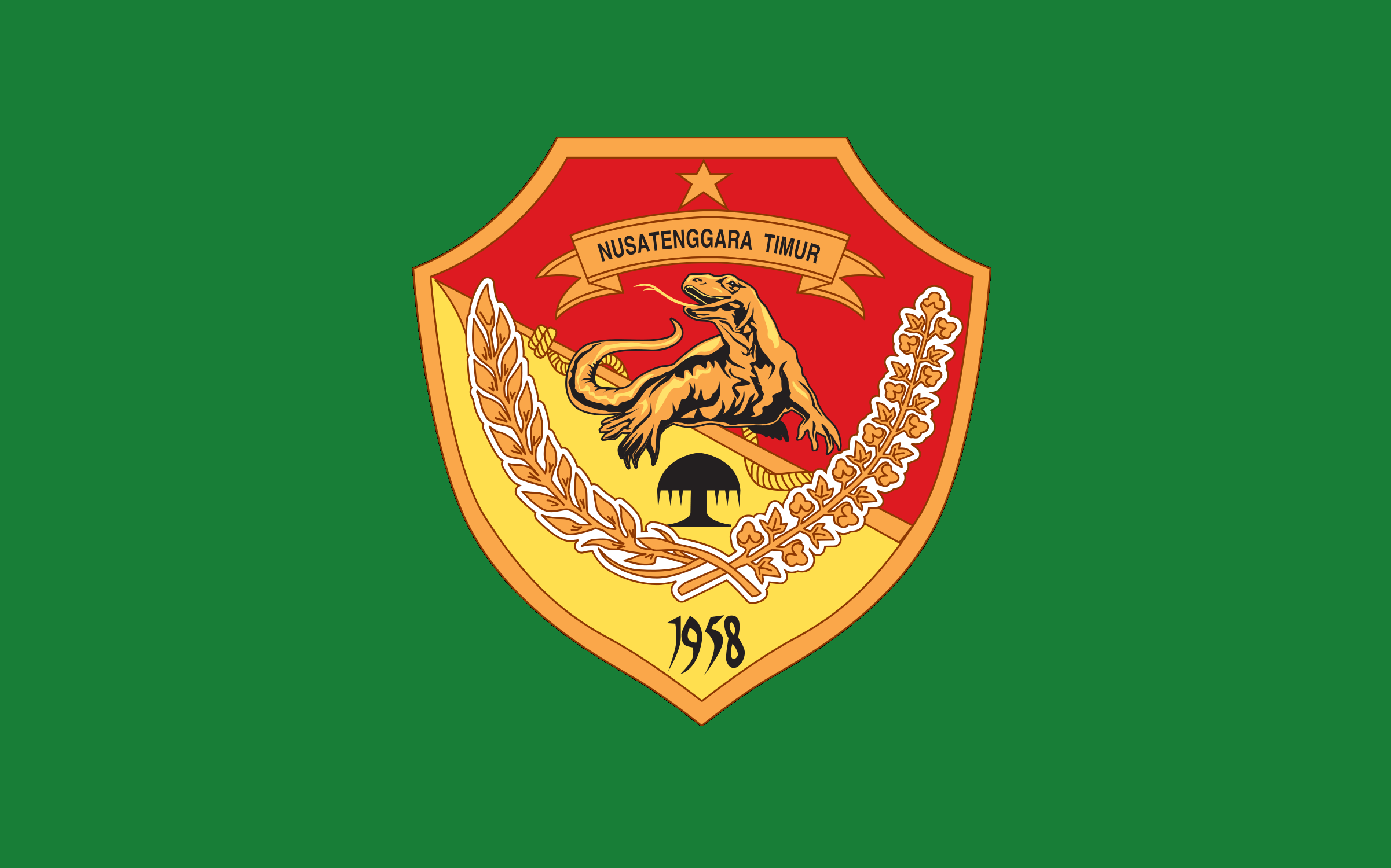 Flag of East Nusa Tenggara, See legal regulation about the flag.